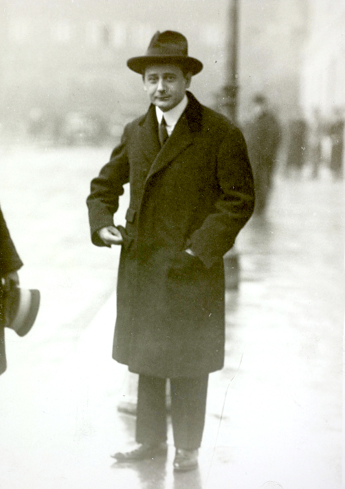 The Viennese banker and wholesaler Siegmund Bosel (1893–1942 or 1945)